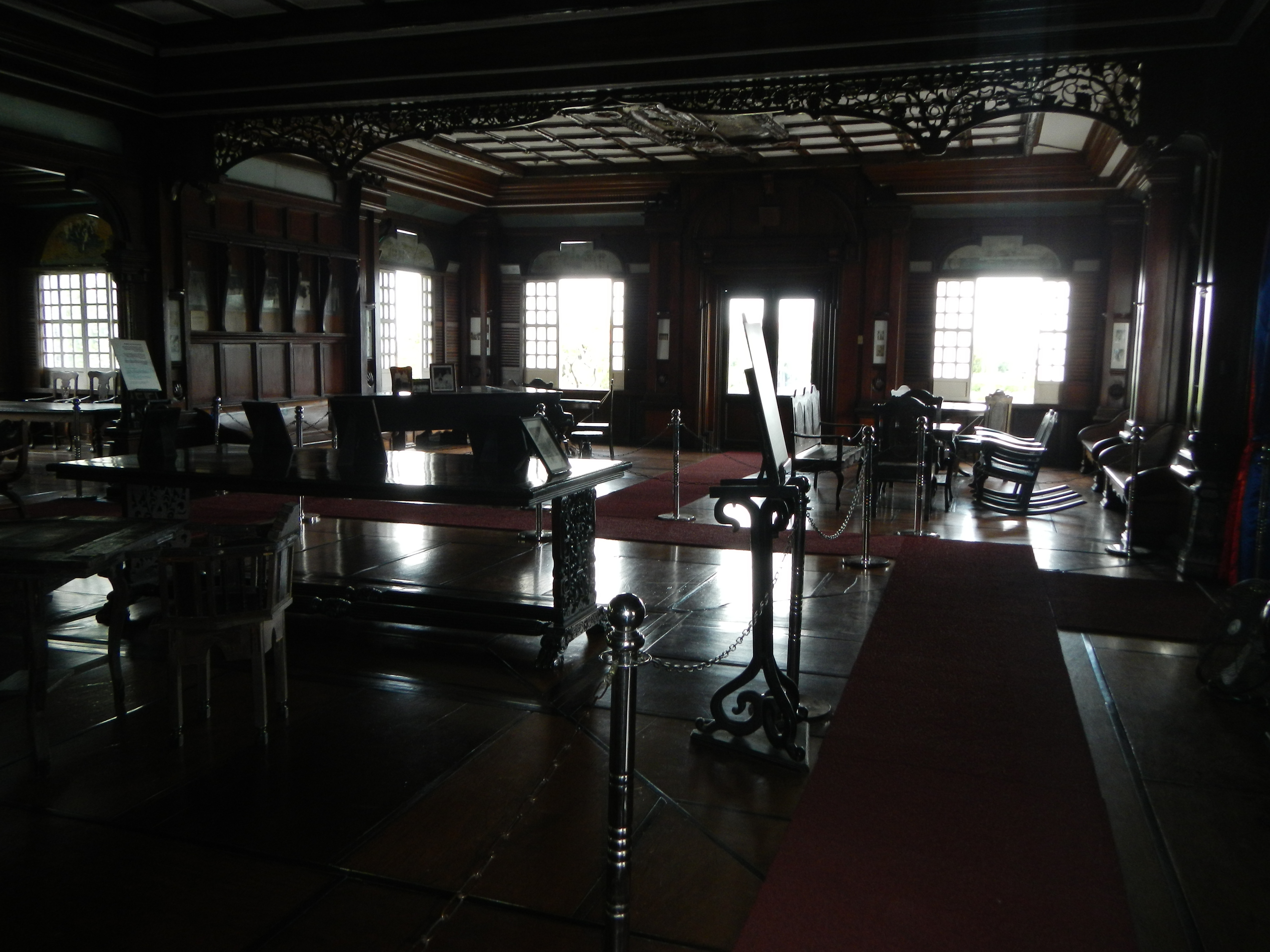 Kawit, Cavite[1] is the home of the Aguinaldo Shrine,[2] where independence from Spain was declared on June 12, 1898.[3] A House of History Architecture Construction 1964 [4] Coordinates: 14°26'41"N 120°54'24"E [5] Kawit, Cavite[6] is the home of the Aguinaldo Shrine,[7] where independence from Spain was declared on June 12, 1898.[8] A House of History Architecture Construction 1964 [9] Coordinates: 14°26'41"N 120°54'24"E [10]